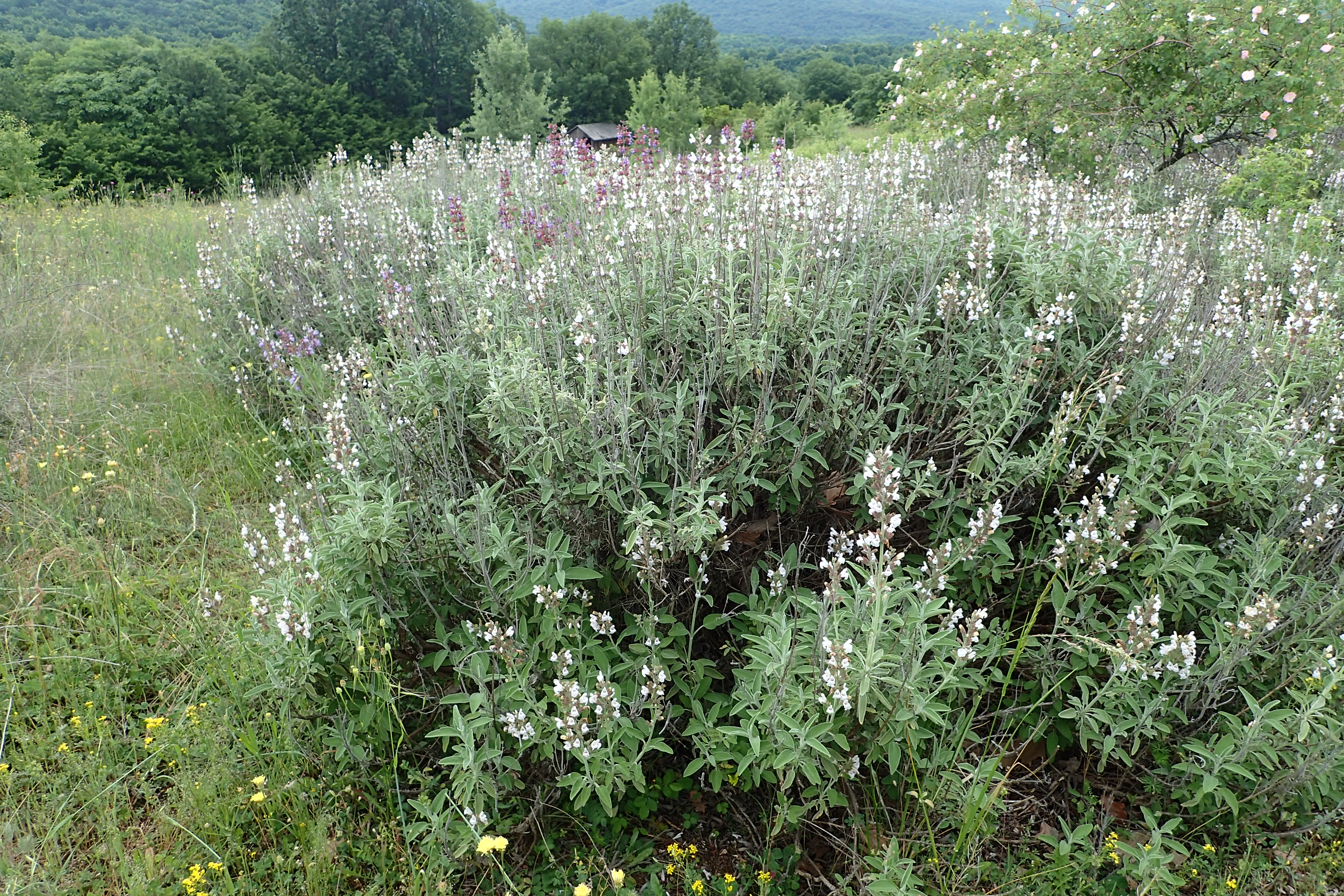 Salvia fruticosa in Balkan Botanic Garden of Kroussia